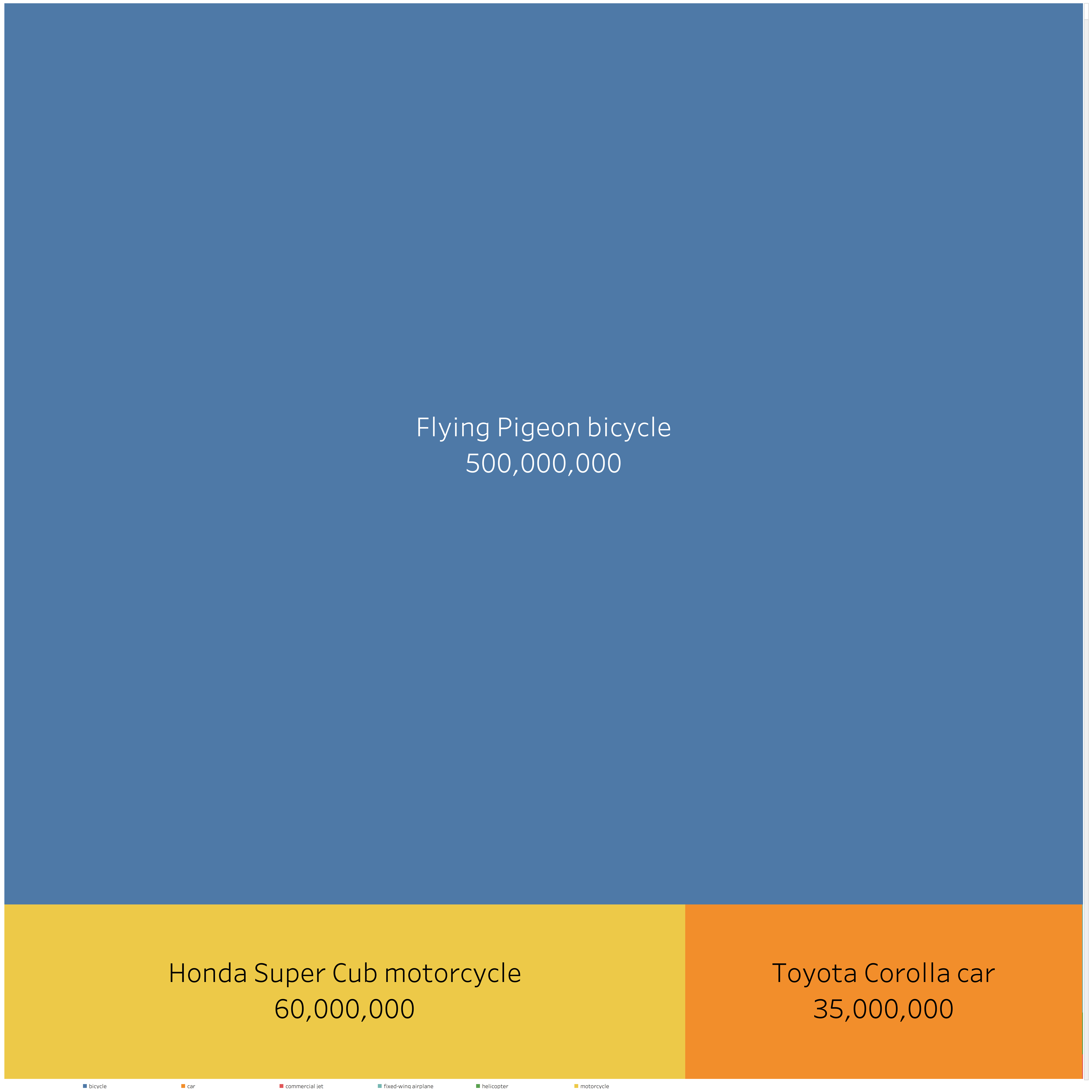 Treemap of the most common vehicles ever made, with total number made shown by size, and type/model labeled and distinguished by color. Fixed-wing airplanes, helicopters, and commercial jetliners are visible in the lower right corner at maximum zoom.